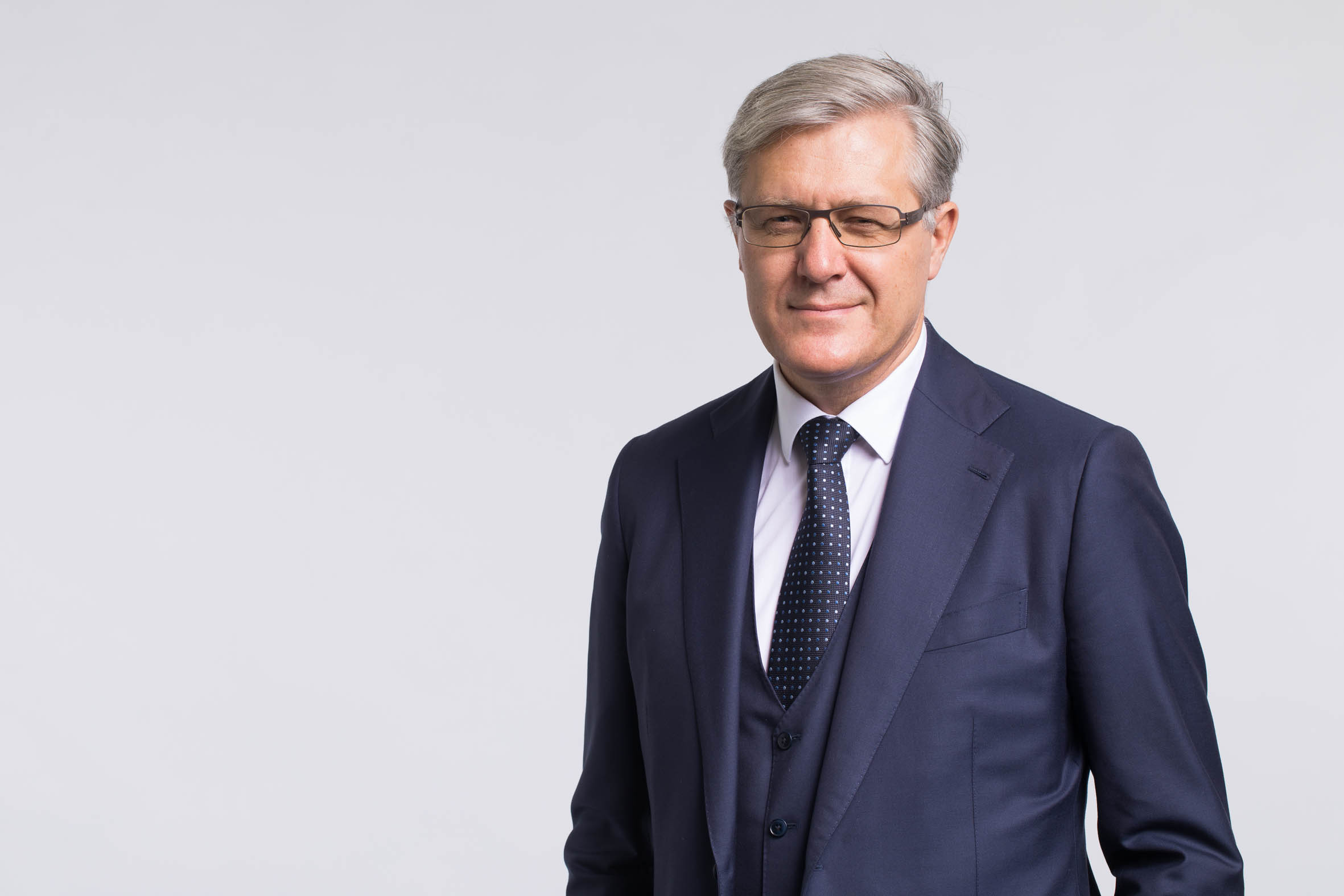 Hendrik Jan Ankersmit 2019